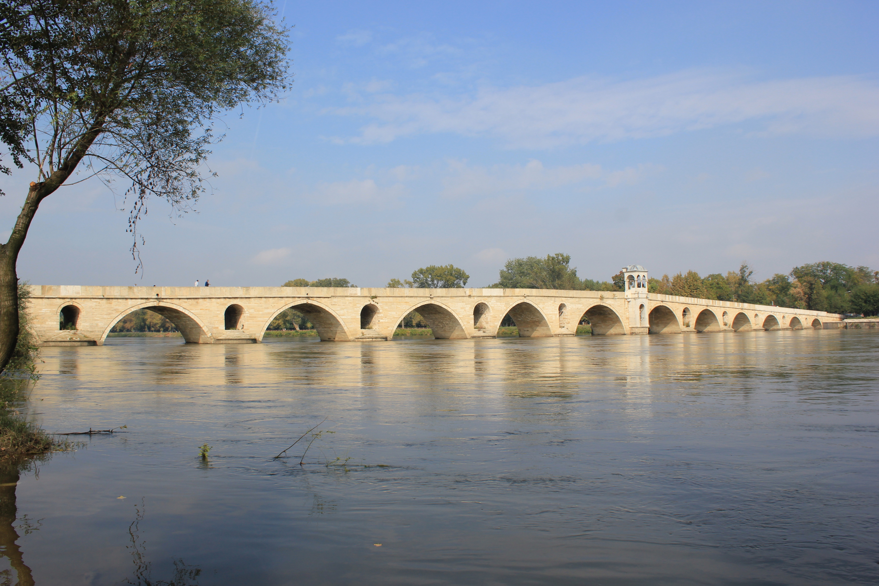 "New bridge" over Maritsa River in Edirne.